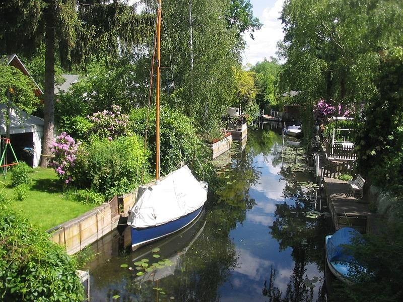 Kleiner Jürgengraben (canal) in Tiefwerder. Tiefwerder is a former village, founded in 1816, in Berlin-Spandau and an ait in Berlin-Wilhelmstadt from river Havel. The Tiefwerder Wiesen (meadows) are a protected area (german: Landschaftsschutzgebiet) and Berlins last natural flood plain and last spawn-area for the Northern pike.